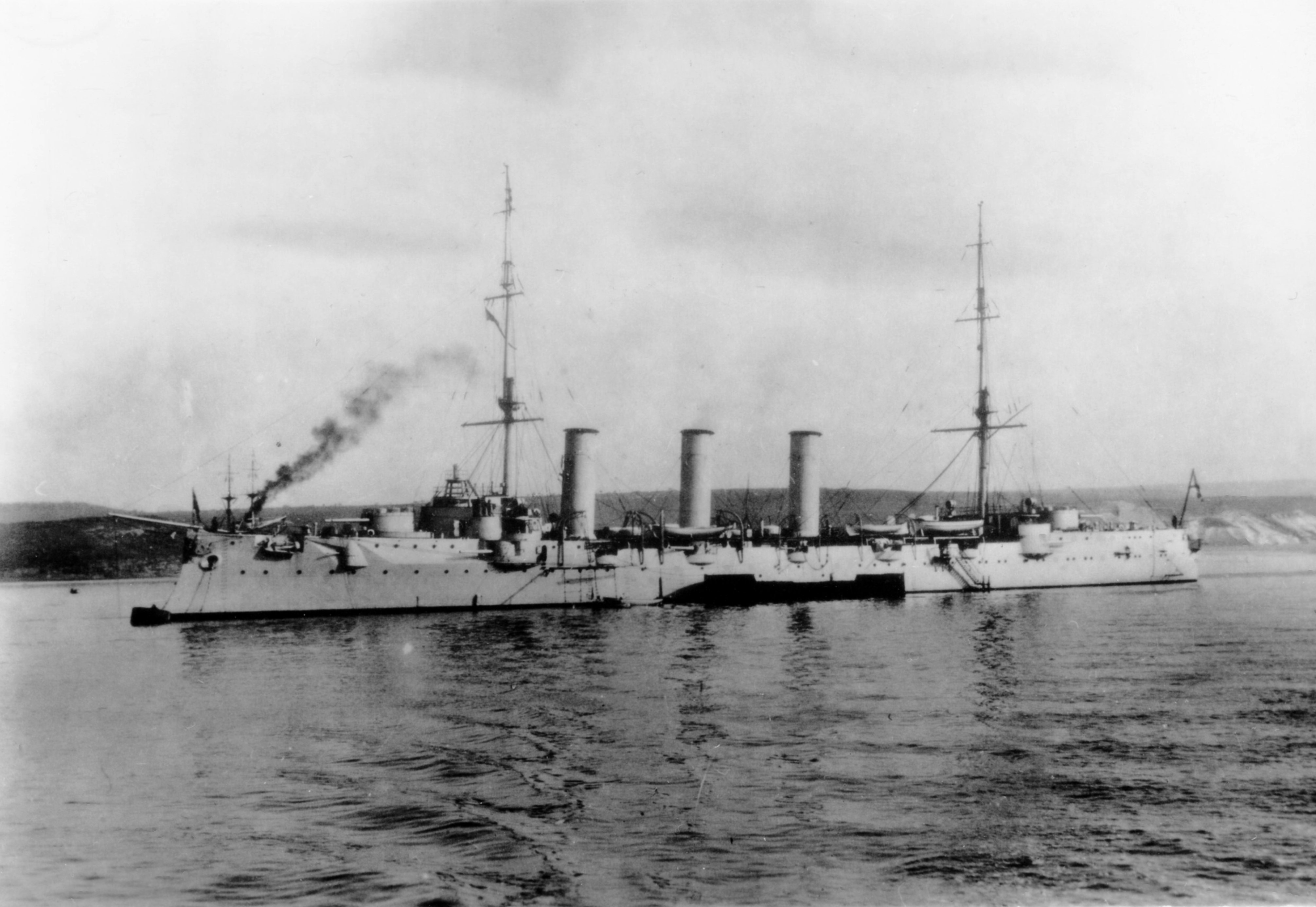 Imperial Russian cruiser Pamyat' Merkuriya.